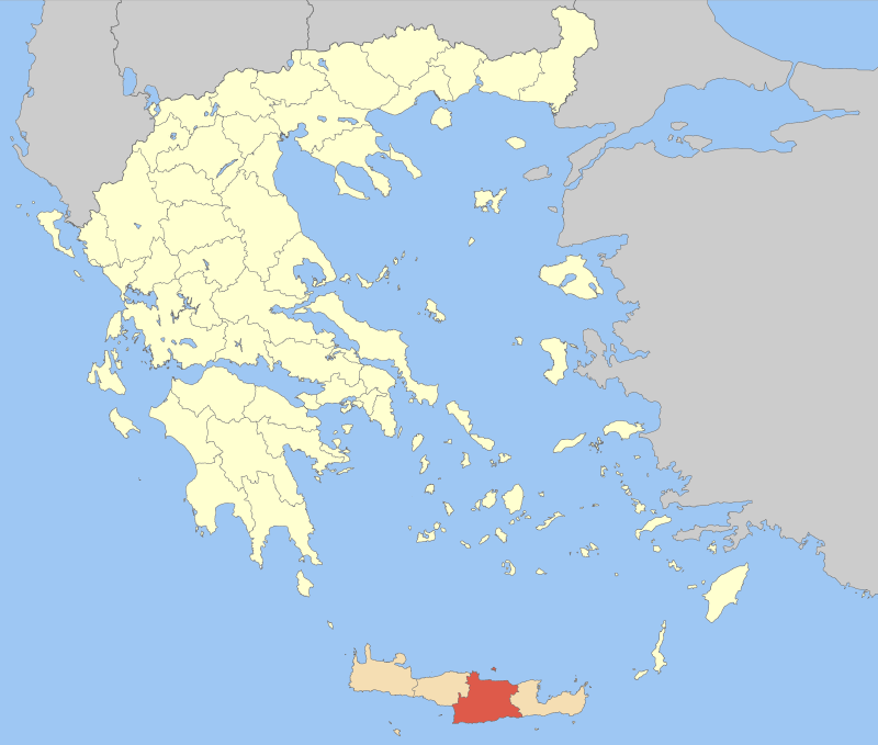 Locator map of Iraklio prefecture (Νομός Ηρακλείου) in Greece